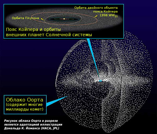 Note: See the version numbered to create or enhance one translation. If you can, help make this description accessible to all by translating it into other languages – thanks!